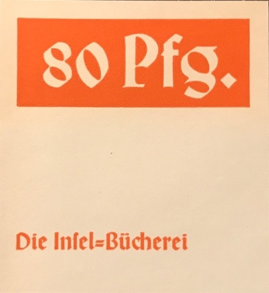 Price label of the Insel-Bücherei (1932, 69 x 74 mm)